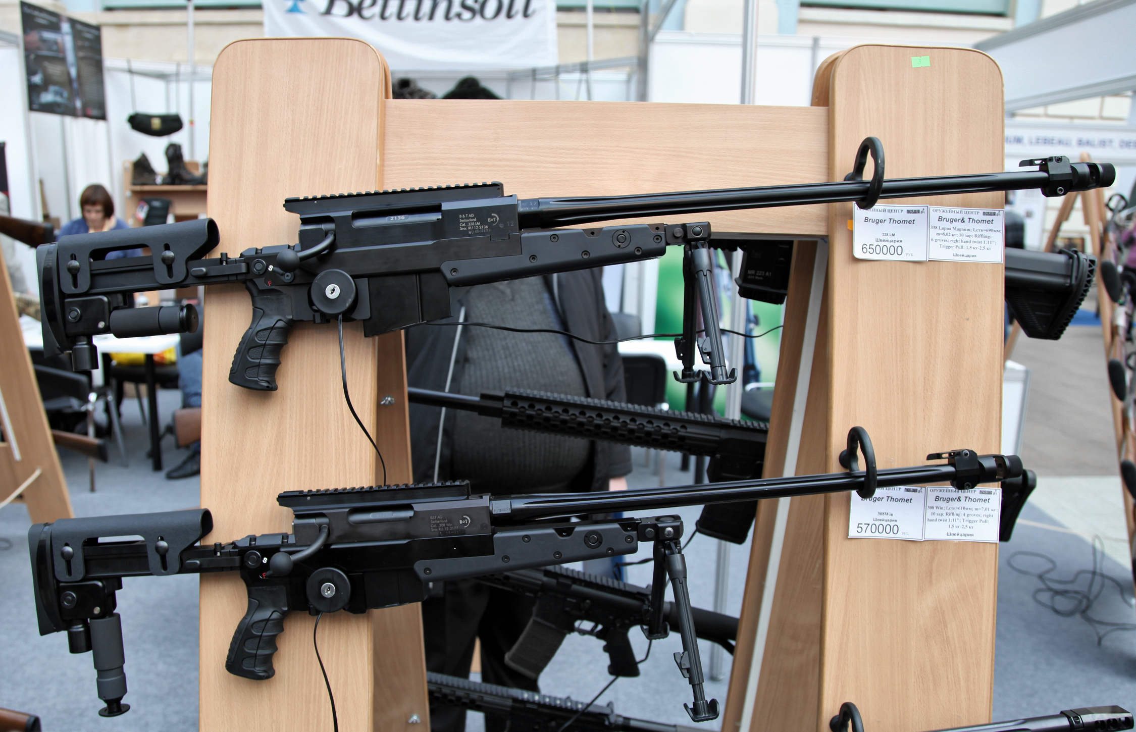 Brügger & Thomet APR: Up chambered in .338 Laupa Magnum and down chambered in .308 Winchester